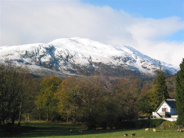 A view of Ben Ledi taken from Kilmahog in November 2006, showing the Lade Inn in the foreground. Summary A view of Ben Ledi taken from Kilmahog in November 2006, showing the Lade Inn in the foreground.